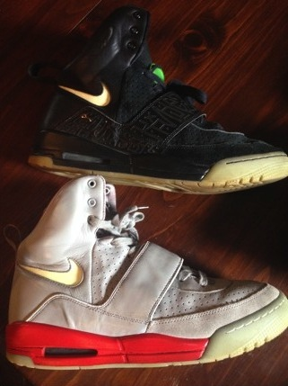 Early sample colorways of the Nike AIr Yeezy